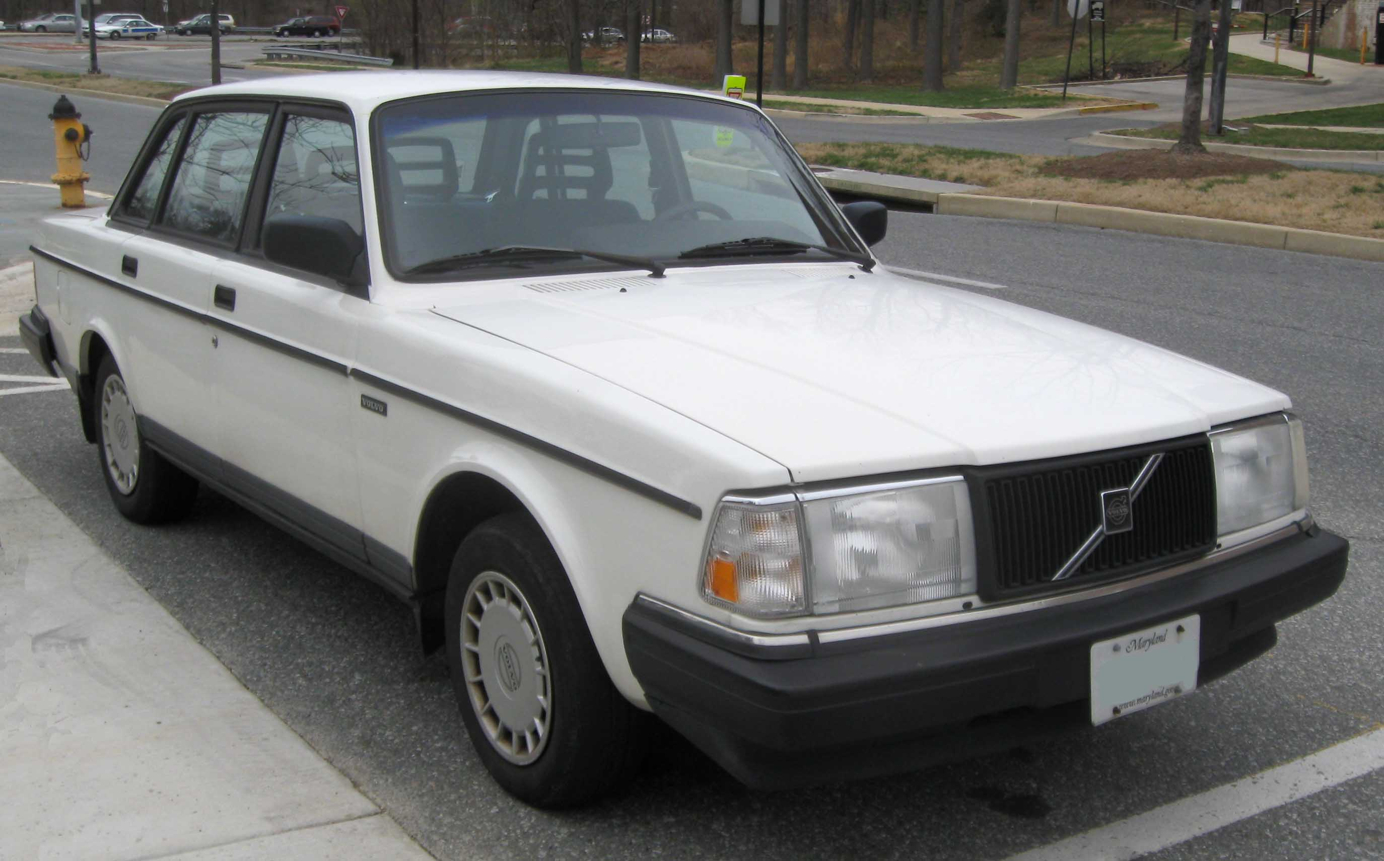 Volvo 240 photographed in College Park, Maryland, USA.